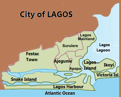 Lagos original city proper boundaries, showing the contemporary districts. This definition is no longer in usage. The expanded metropolitan area is now in common usage